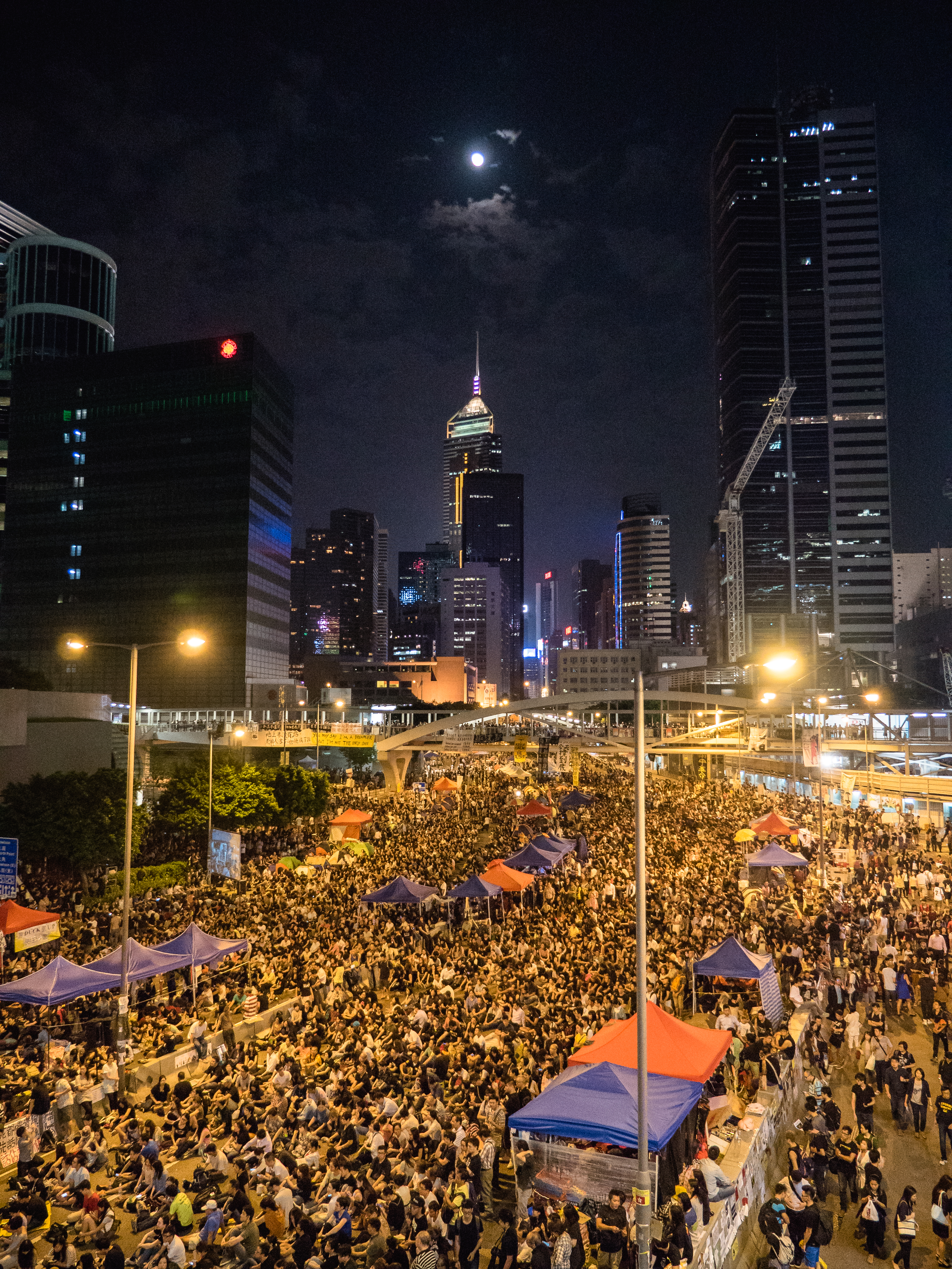 Umbrella Revolution in Admiralty Night View